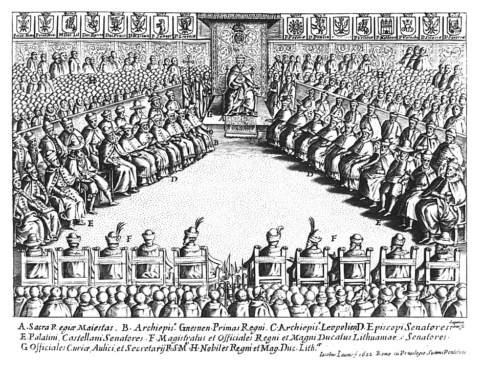 Polsih Sejm under the reign of Sigismund III Vasa